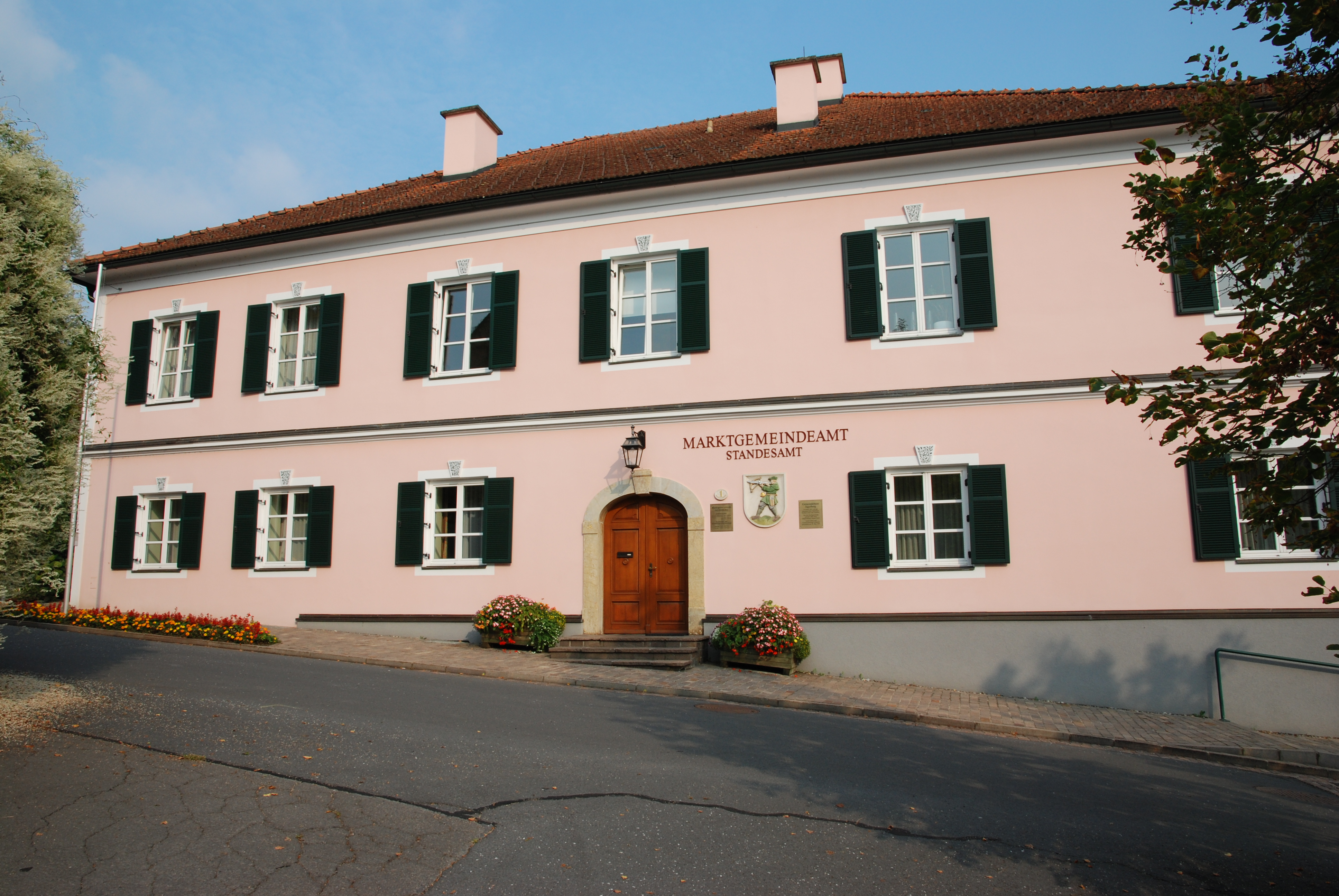 Paulhaus Jagerberg